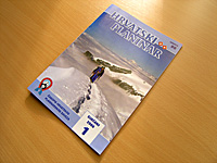 Hrvatski planinar (Croatian Mountaineer) - journal of the Croatian Mountaineering Association